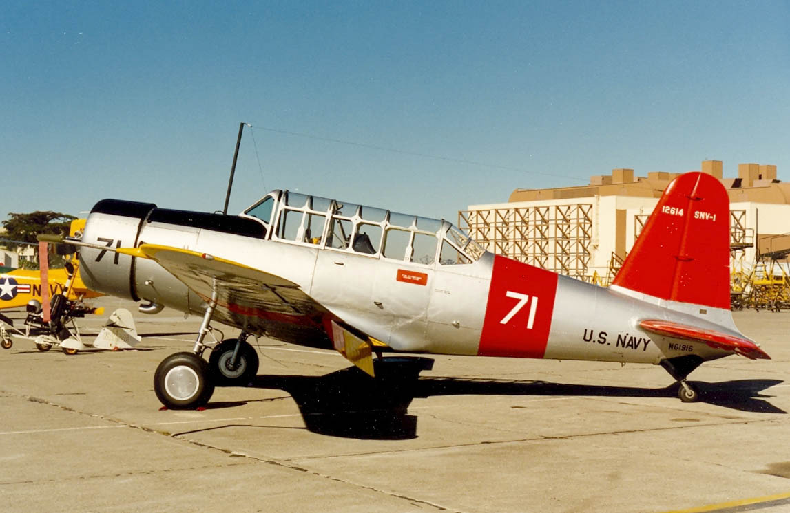 At NAS Alameda's 50th Anniversary in 1990.